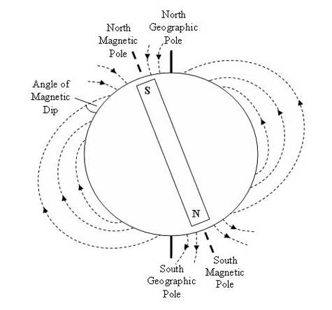 This diagram shows the magnetic field of our Earth